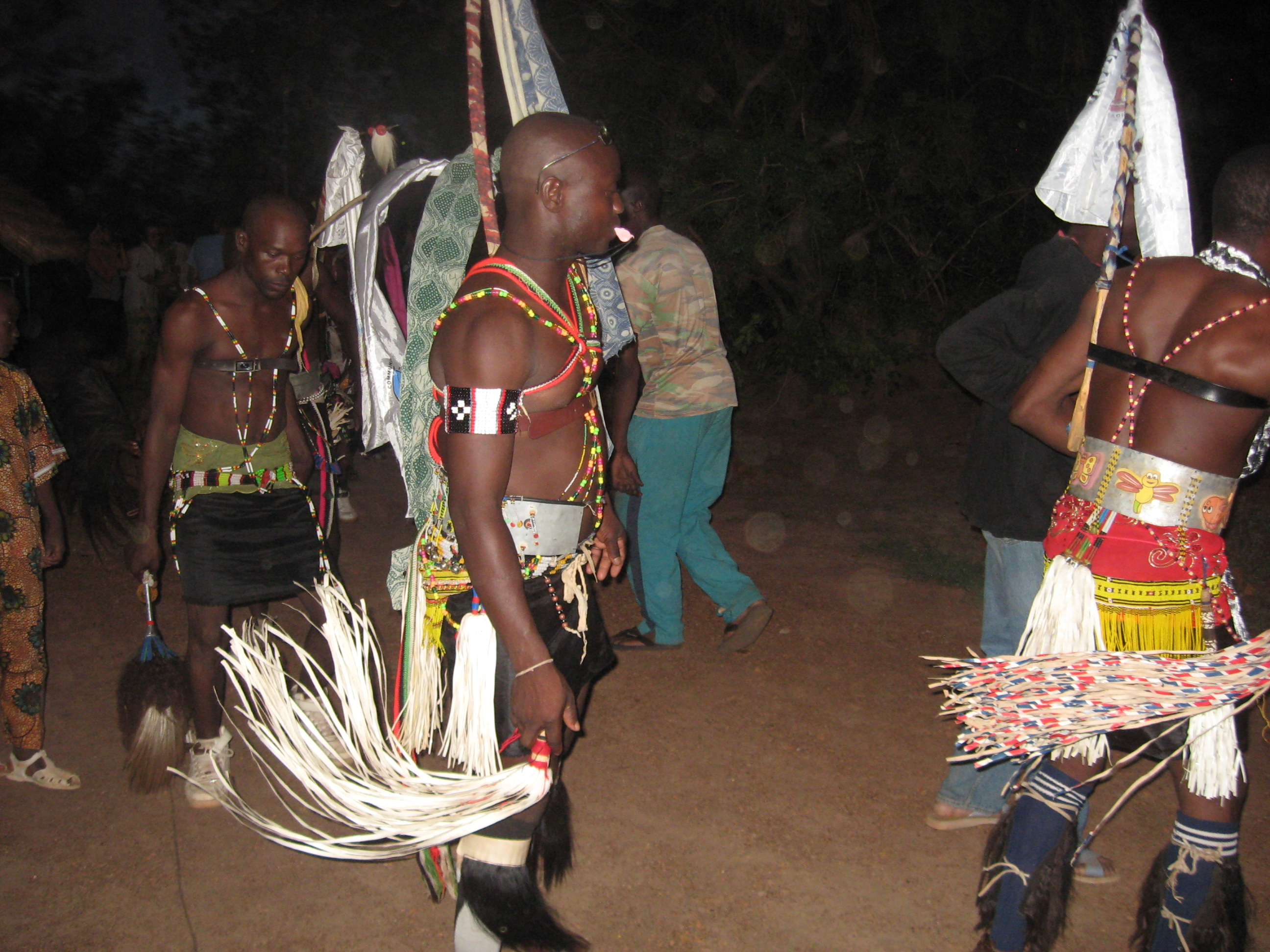 Bassari dancers in Kedougou